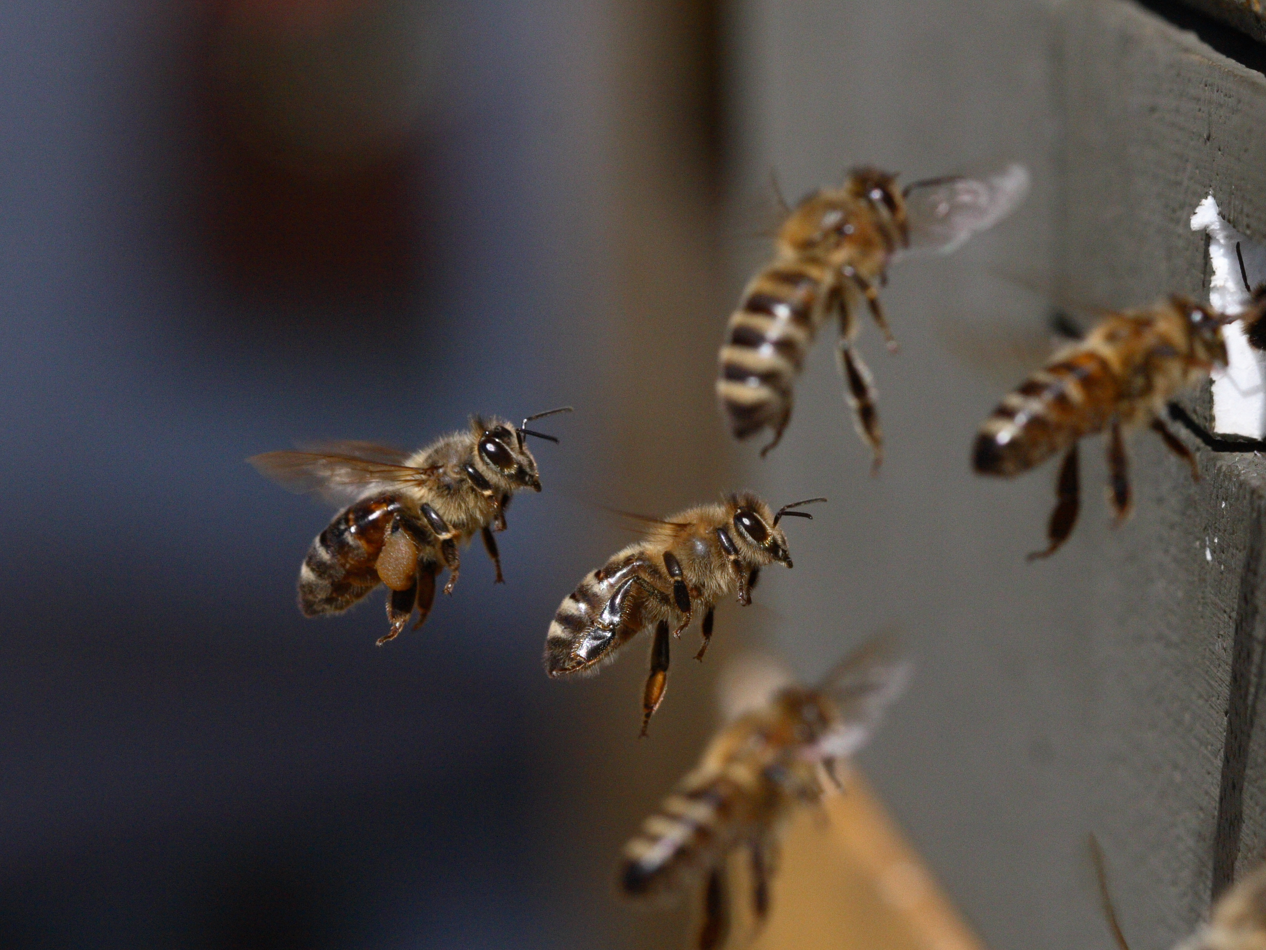 Flying Western honey bees